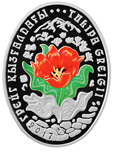 Tulipa greigii, 500 tenge revers